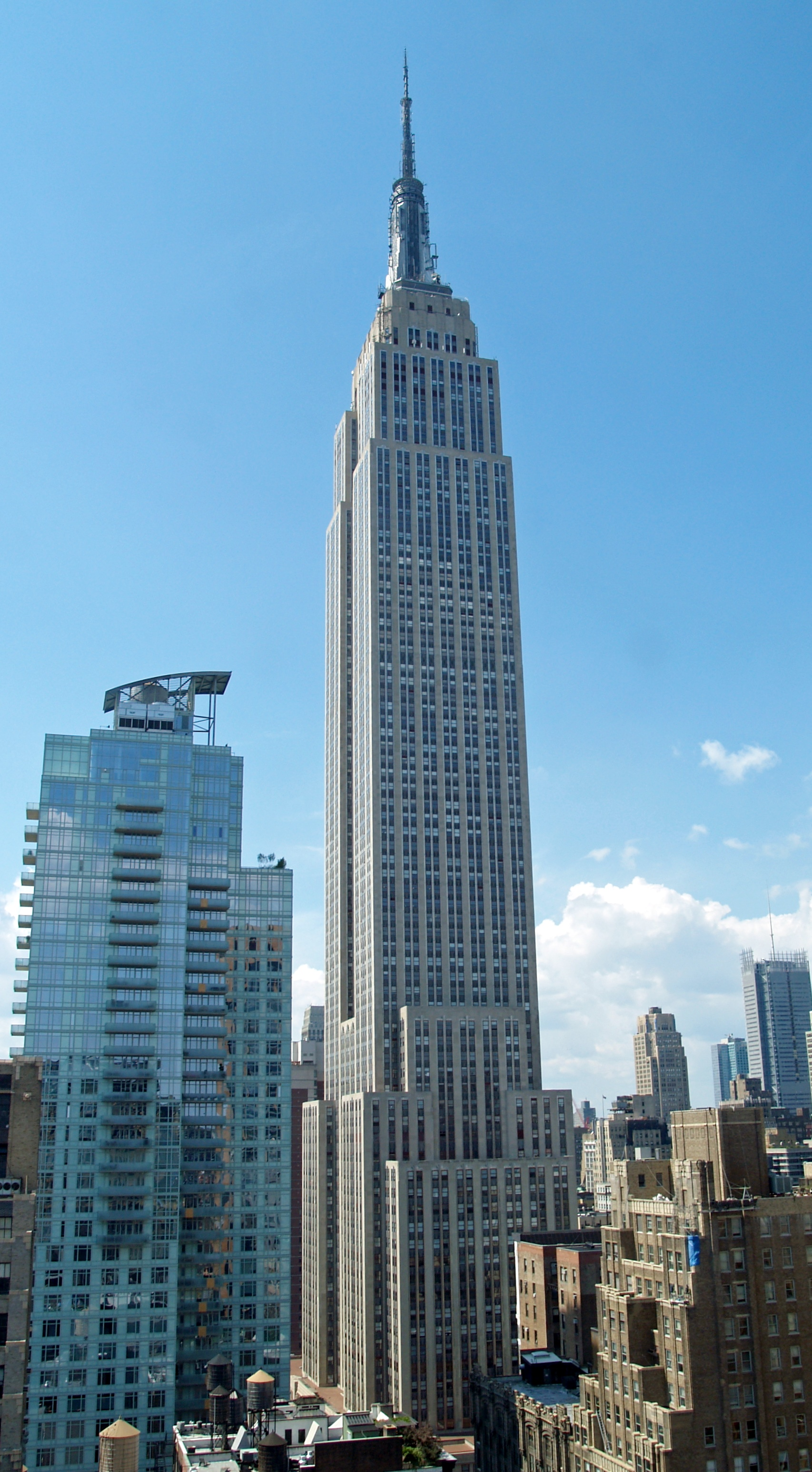 Empire State Building from a Park Avenue skyscraper.